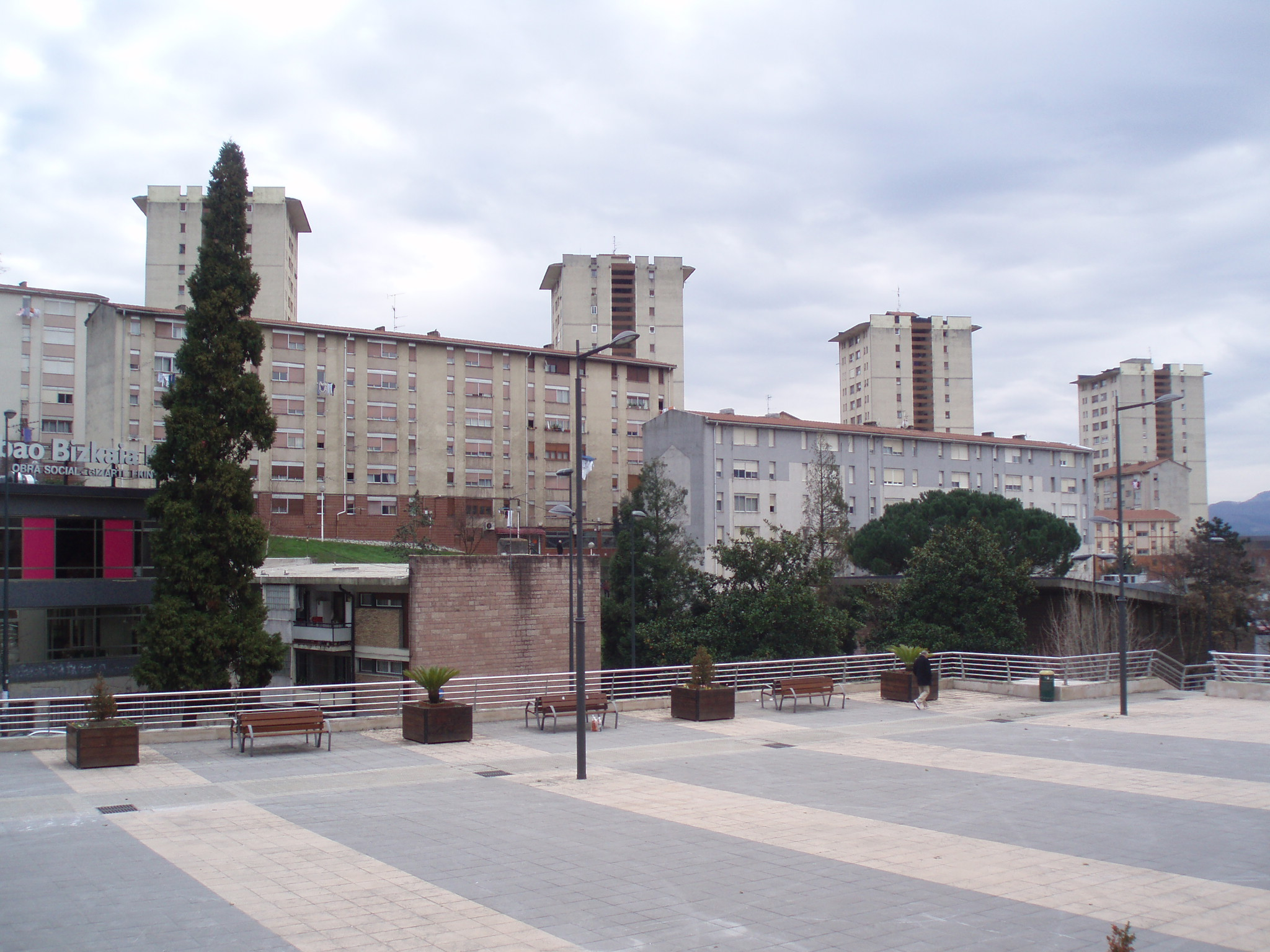 Ugarte square of Otxarkoaga (Bilbao). Under the square there is a parking for locals.